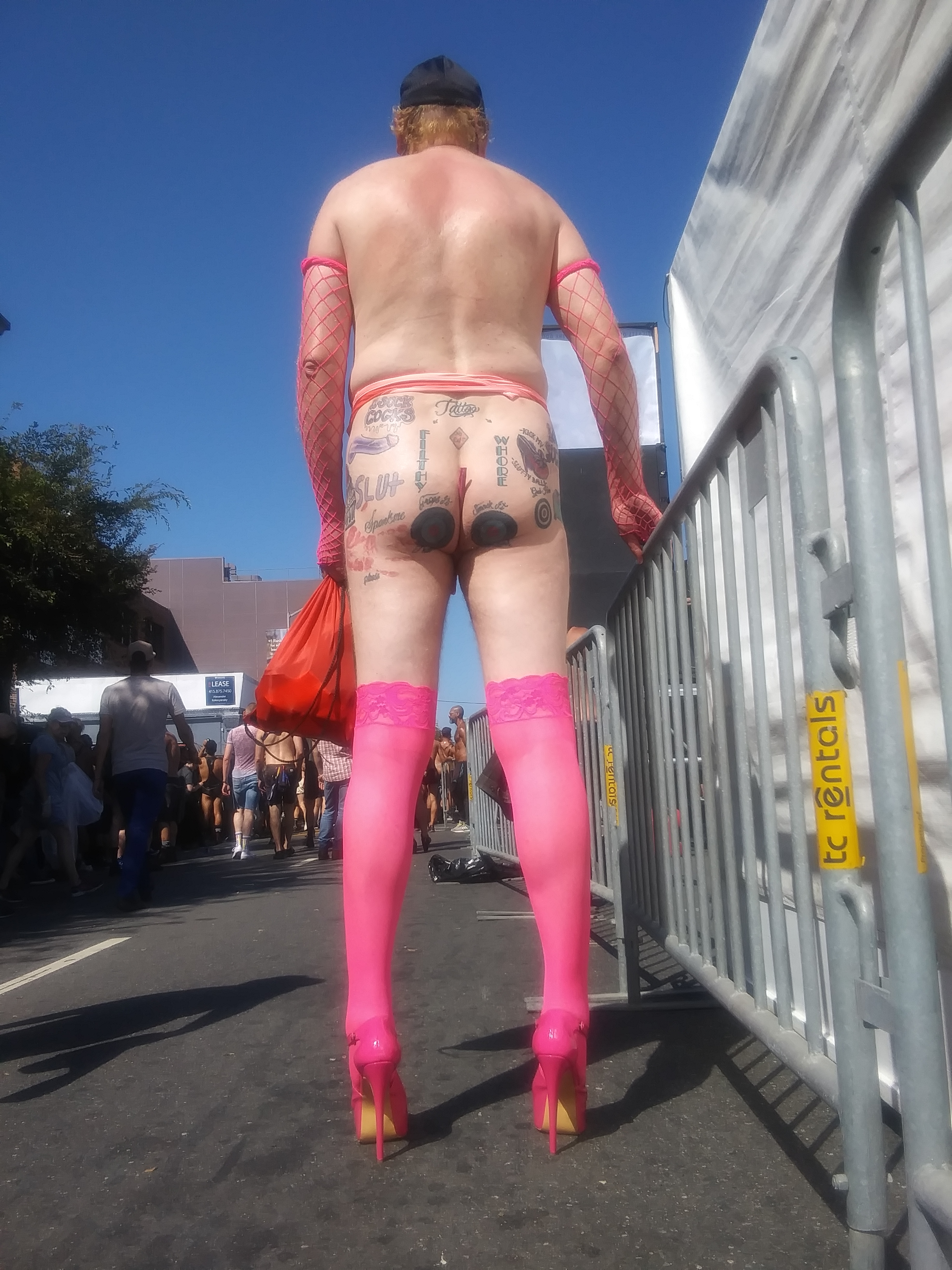 Dore Alley Street Fair 2019